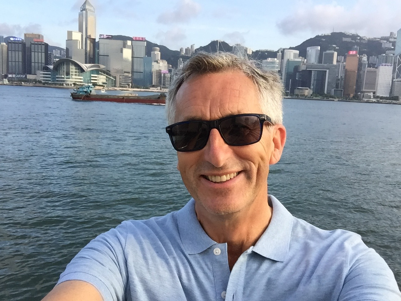 Professor Parker in Hong Kong